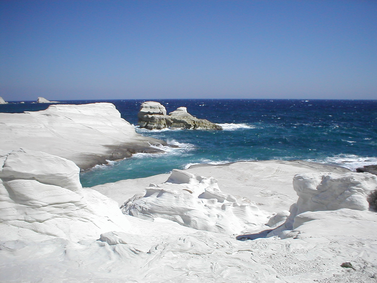 Sarakiniko beach, Milos. Limestone shore at Sarakiniko, in Milos island., Milos.